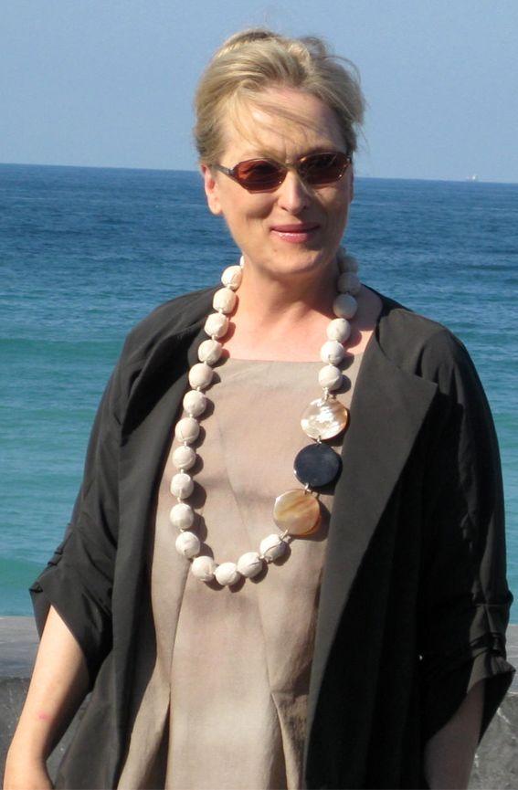 Meryl Streep on the 56th International Film Festival in San Sebastian (Spain). Own work by uploader User:PhotoTakeReality